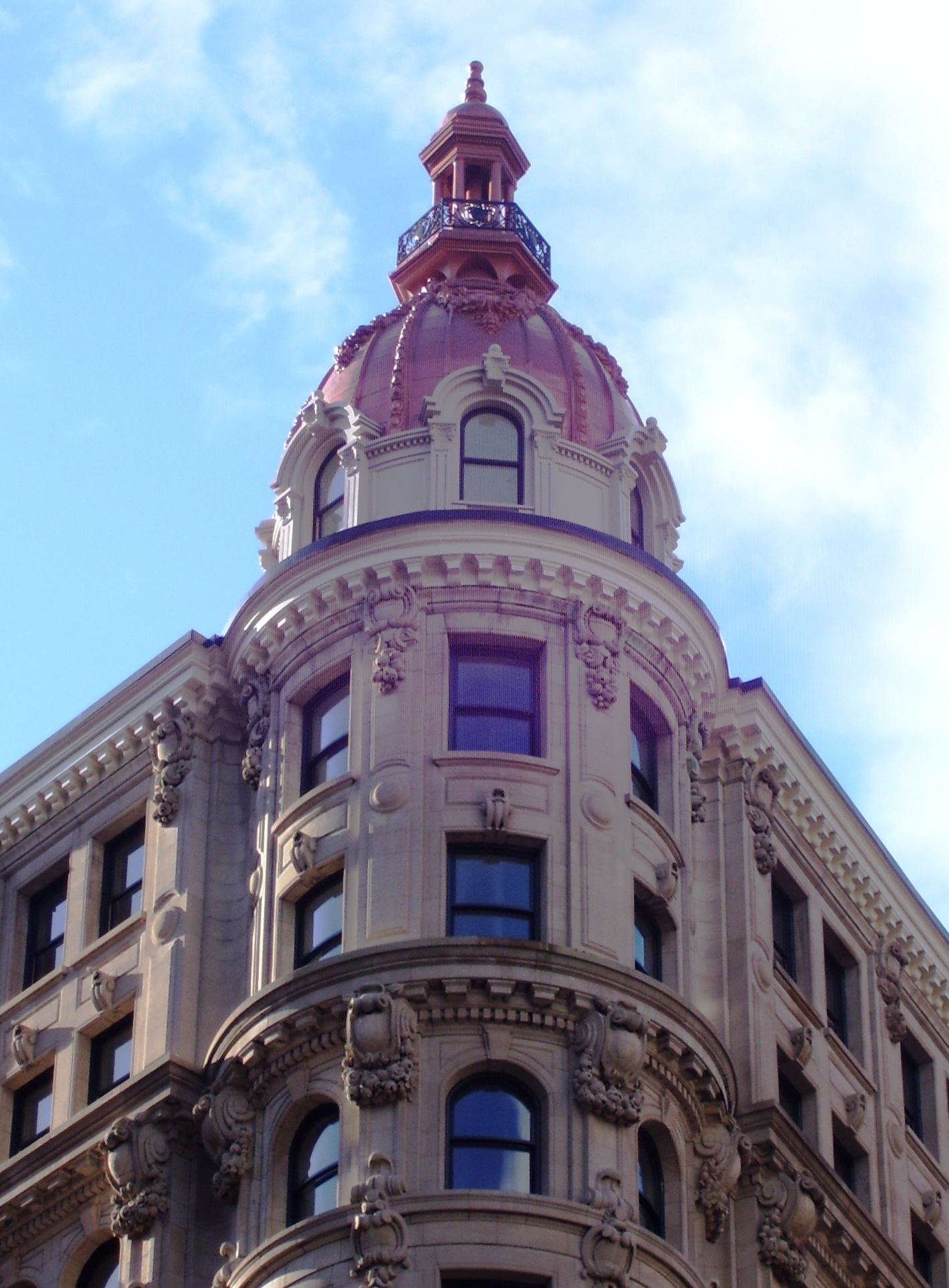 The building which is currently the NoMad Hotel at 1170 Broadway (1166-1172, also known as 14-18 West 28th Street) between West 27th & 28th Streets in the NoMad neighborhood of Manhattan, New York City was built in 1902-03 as stores and offices, and was designed by Schickel & Ditmars in the Beaux Arts style. It is located within the Madison Square North Historic District. (Source: "NYCLPC Madison Square North Historic District Designation Report")